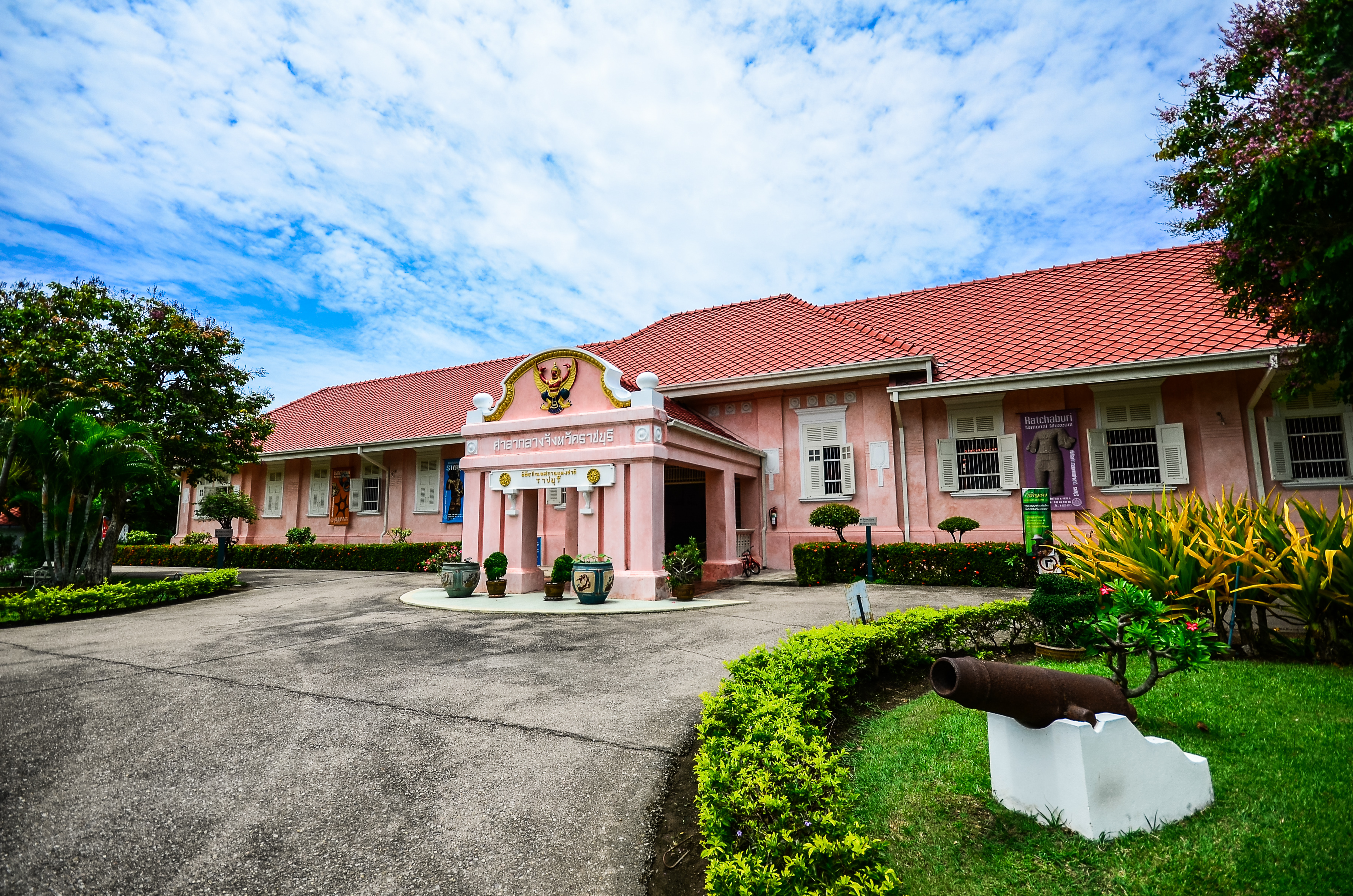 พิพิธภัณฑสถานแห่งชาติ ราชบุรี(ศาลากลางจังหวัดราชบุรีเดิม)